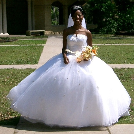 A bride in New Orleans wearing a strapless white dress with huge crinoline skirt